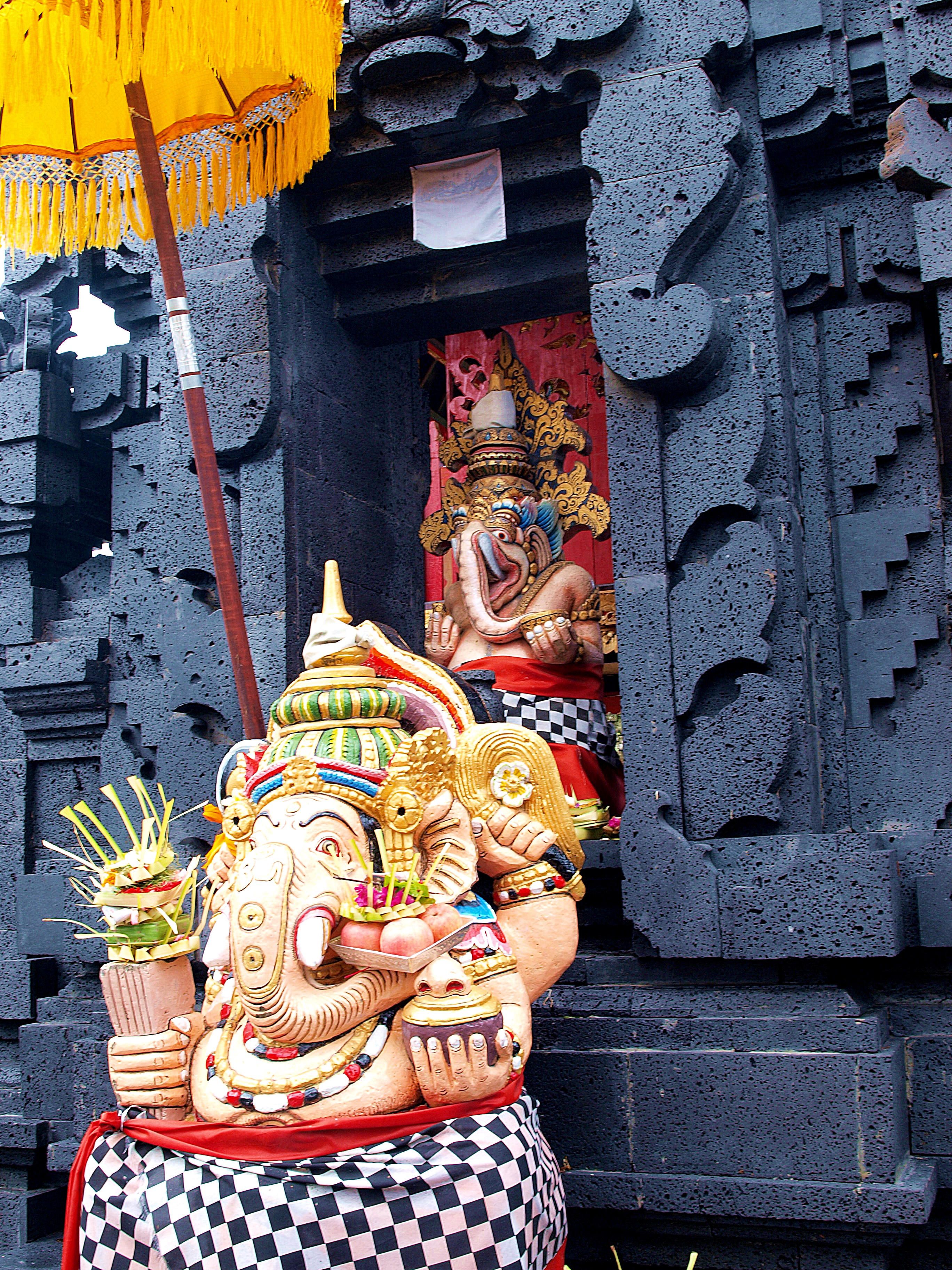 Hindu temple close to the active volcano in Mount Batur, Bali, Indonesia